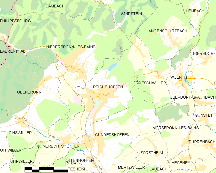 Map of French municipality